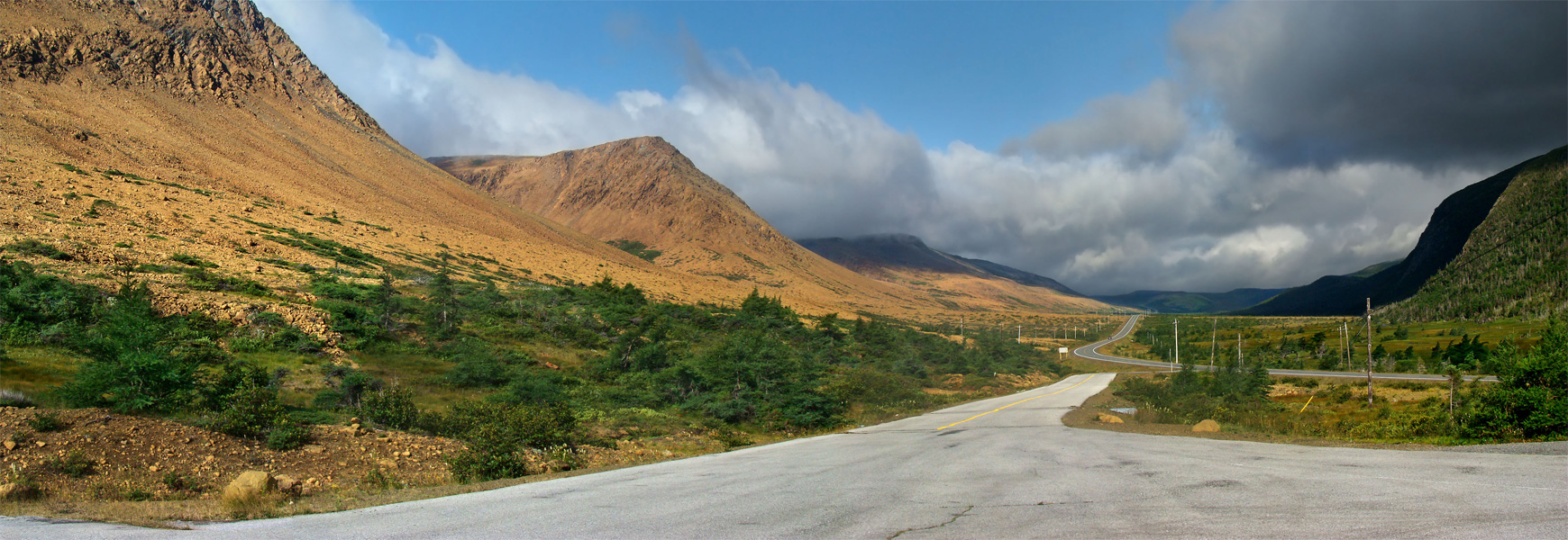 Gros Morne National Park, Western Newfoundland, Canada. The Tablelands seen from Route 431.